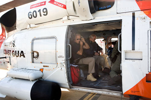 Vice President Joe Biden adjusts his microphone on board an US Coast Guard Helicopter ([HH-60 Jayhawk CG 6019 - Coast Guard Two) before taking off to survey flood damage in Marietta, Georgia. Official White House Photo.